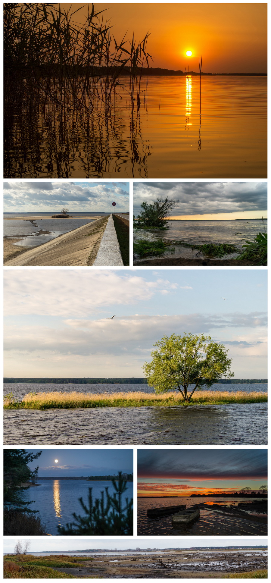 Vialejskaje Reservoir